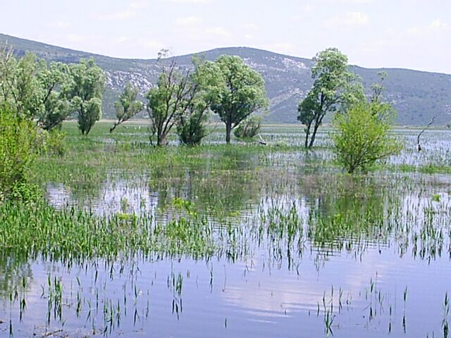 Hutovo Blato bird reservation in southern Bosnia-Herzegovina